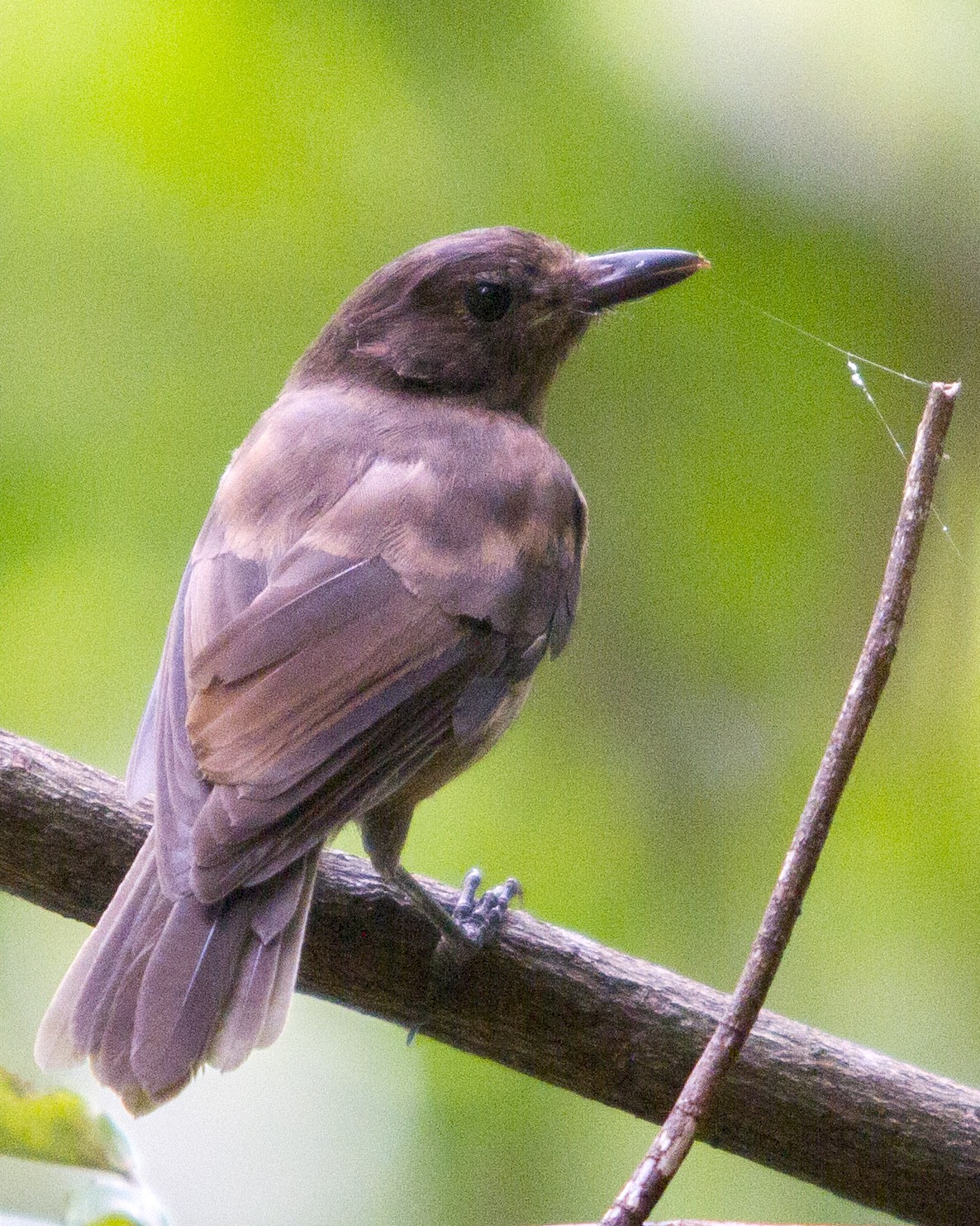 Morningbird (Colluricincla tenebrosa) photographed in Palau in 2013.